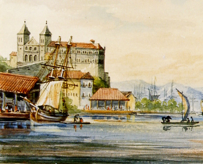 Port of Rio de Janeiro and Guanabara Bay (detail of showing the Monastery of Saint Benedict)